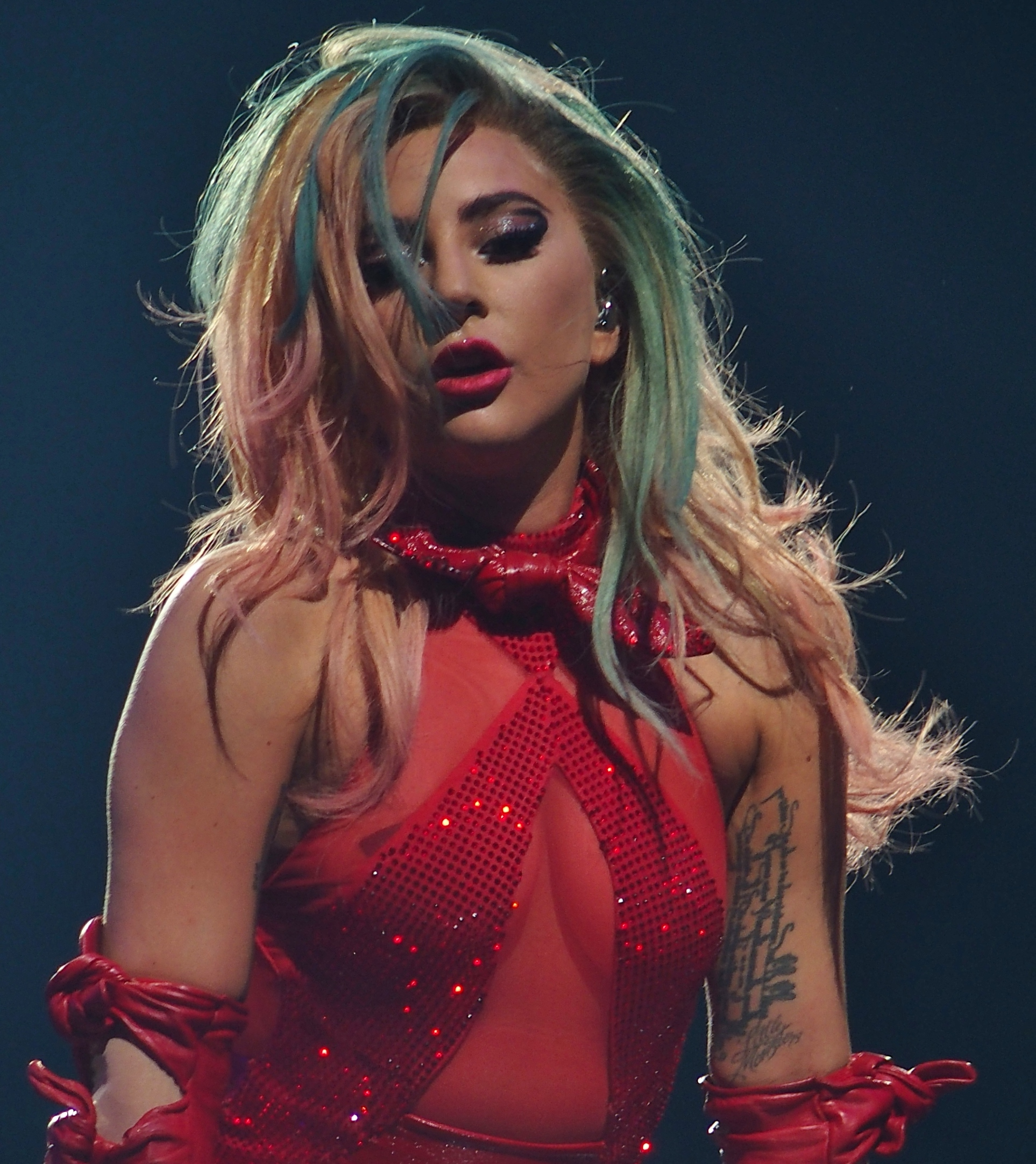 Lady Gaga, Joanne World Tour, Bell Center, Montréal, 3 November 2017 (70)